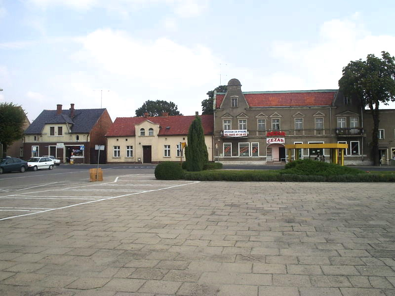 Town Market in Dolsk, Poland